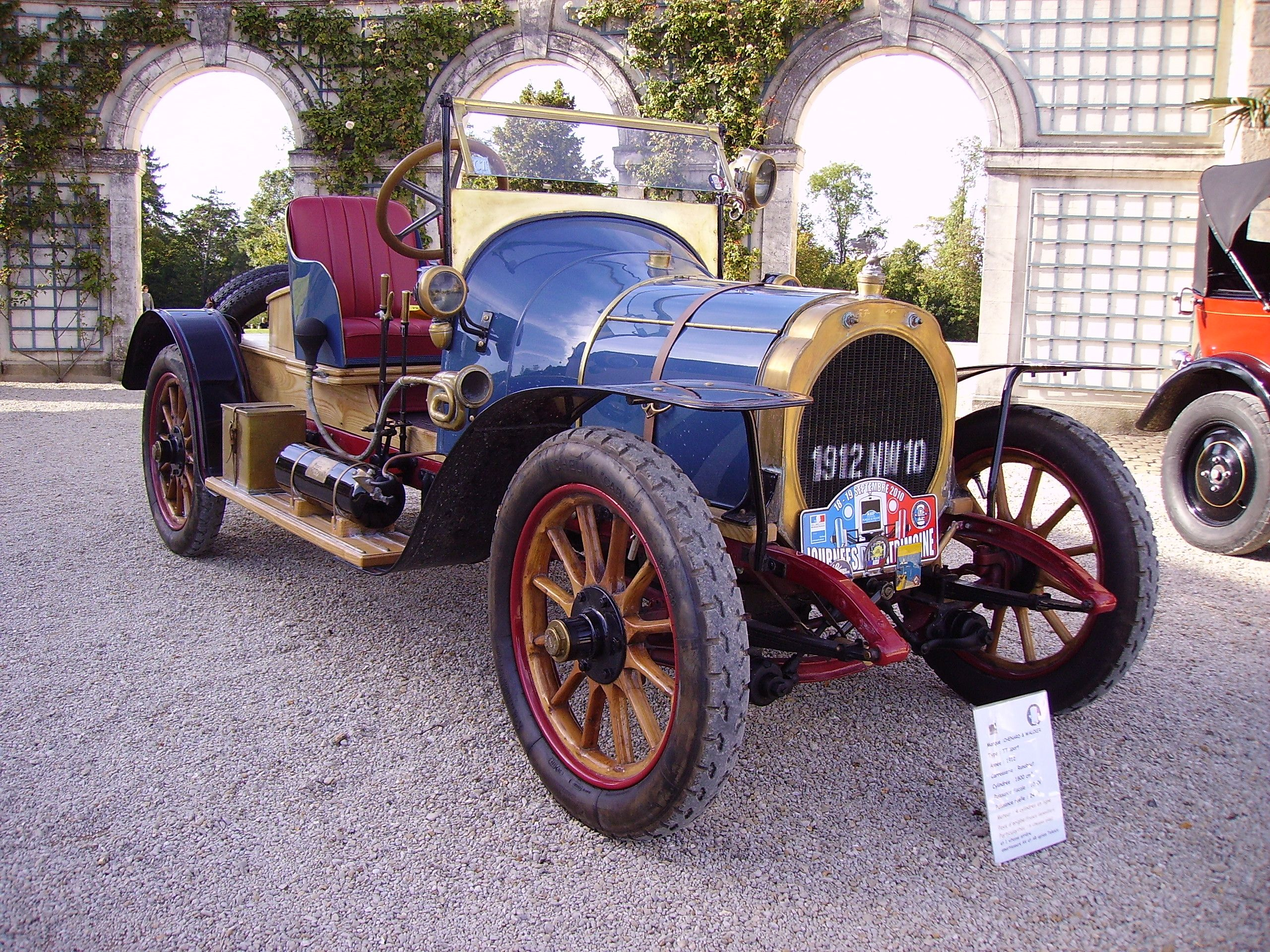 Chenard-Walcker Type TT 1922.